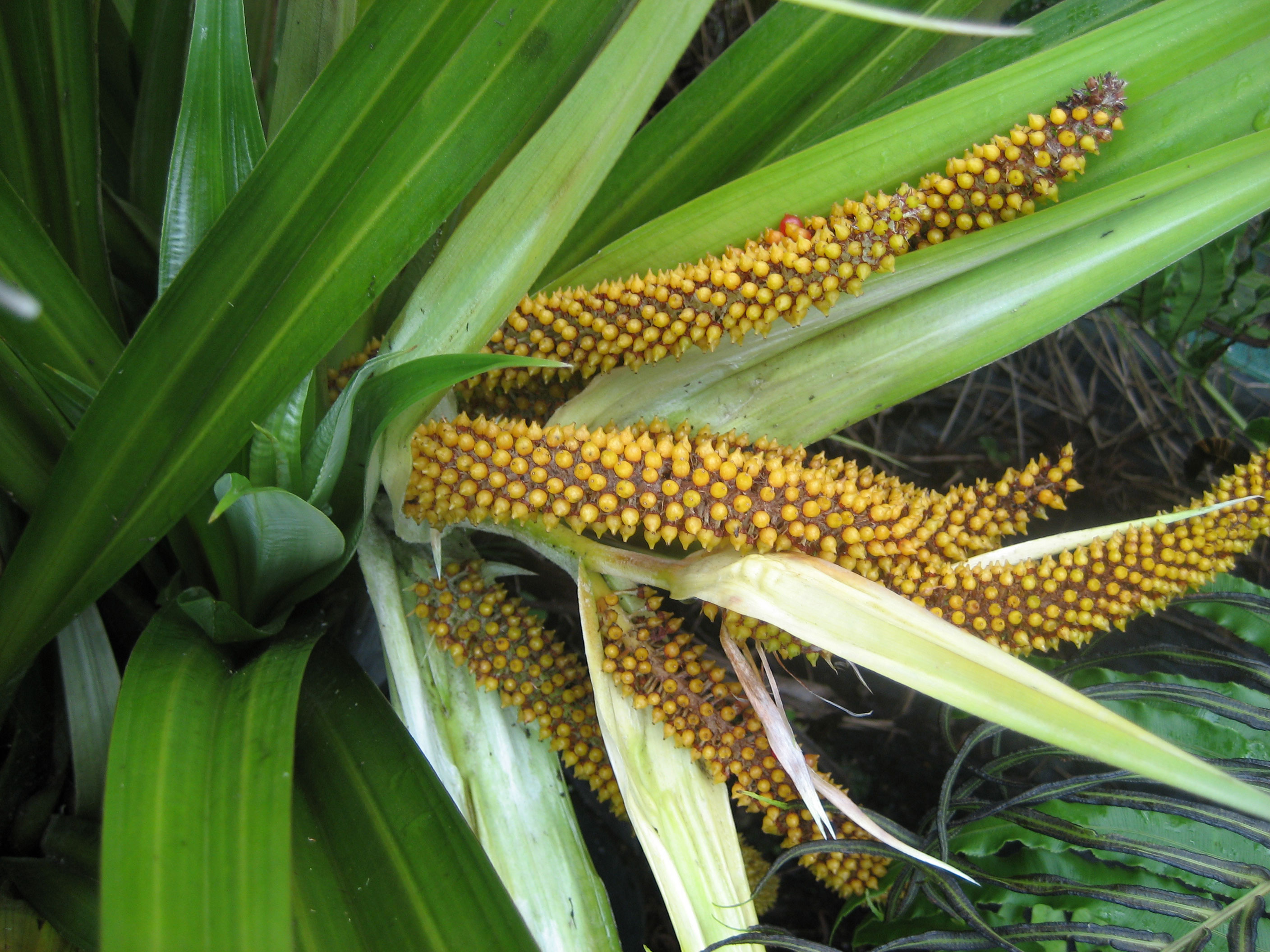 Collospermum hastatum, native to New Zealand. Collospermum is a forest epiphyte, closely allied to Astelia. Common name: Kahakaha. Plant in Auckland, New Zealand, May 2007, with fruits - mostly yellow (immature) with a few red ones, (mature).